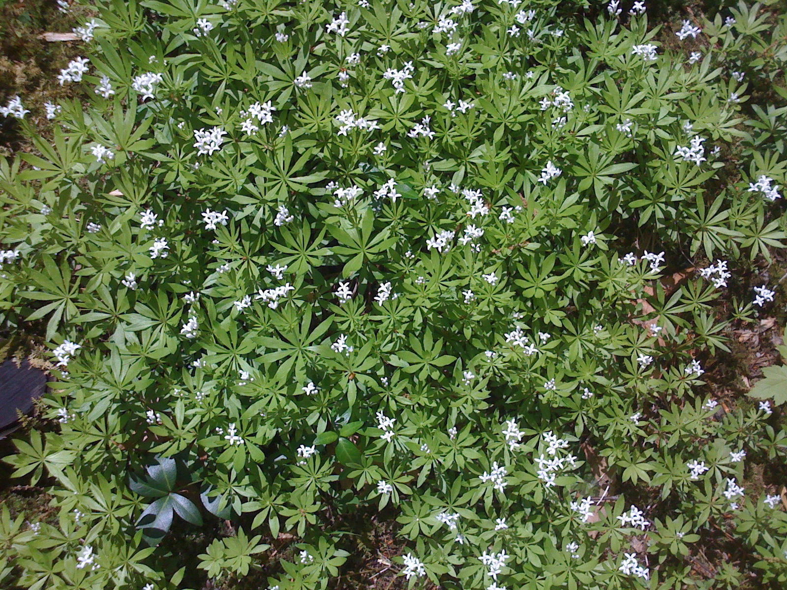 Woodruff